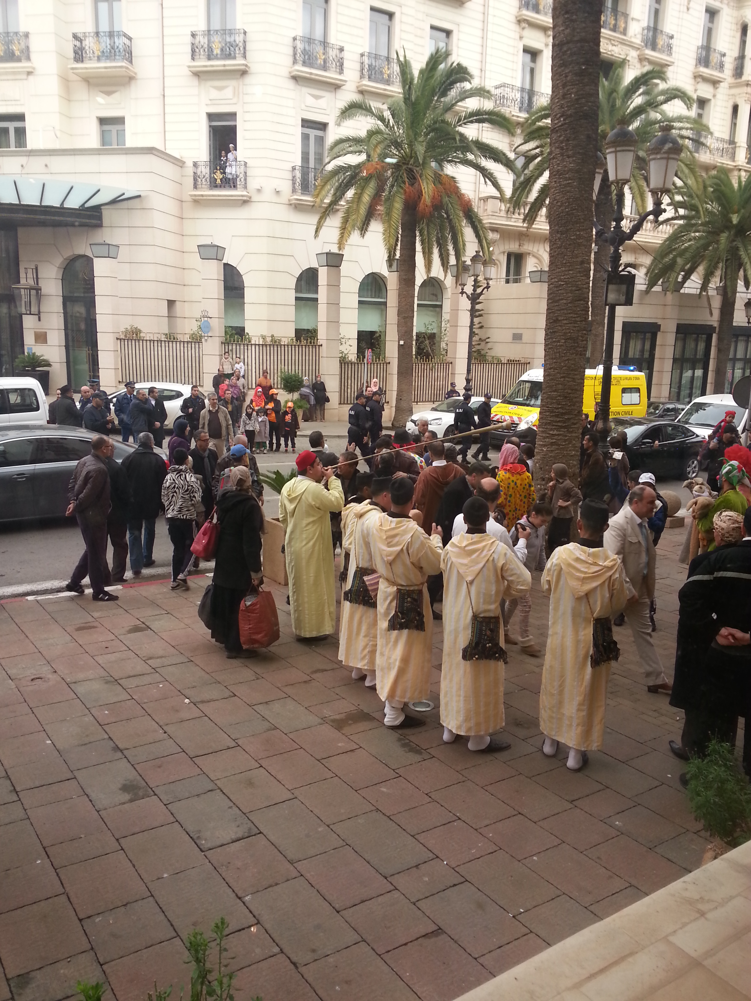 This is an image of Cultural Fashion or Adornment from Algeria